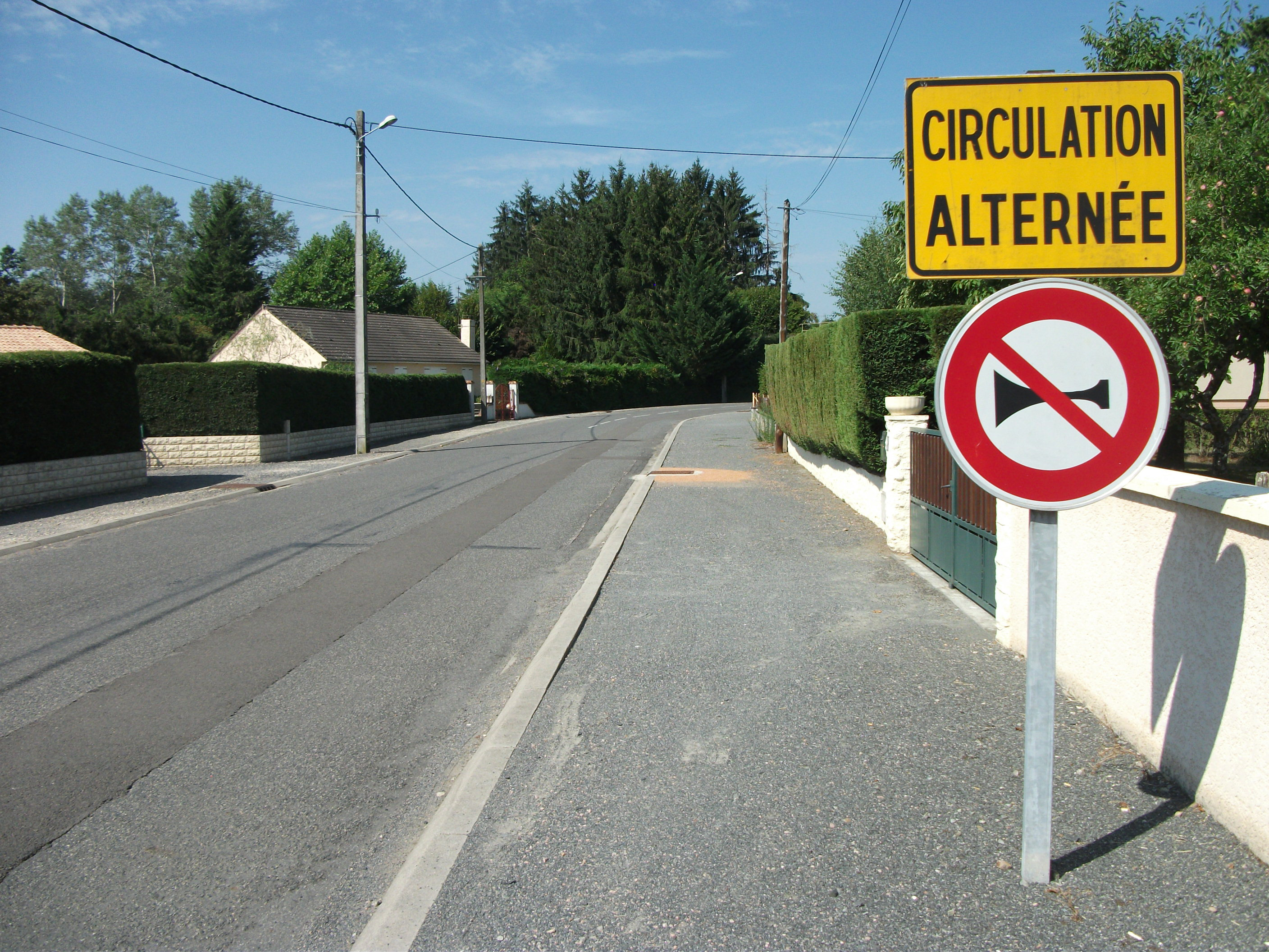 No sonorous signs allowed in this street of Saint-Rémy-en-Rollat [8605]